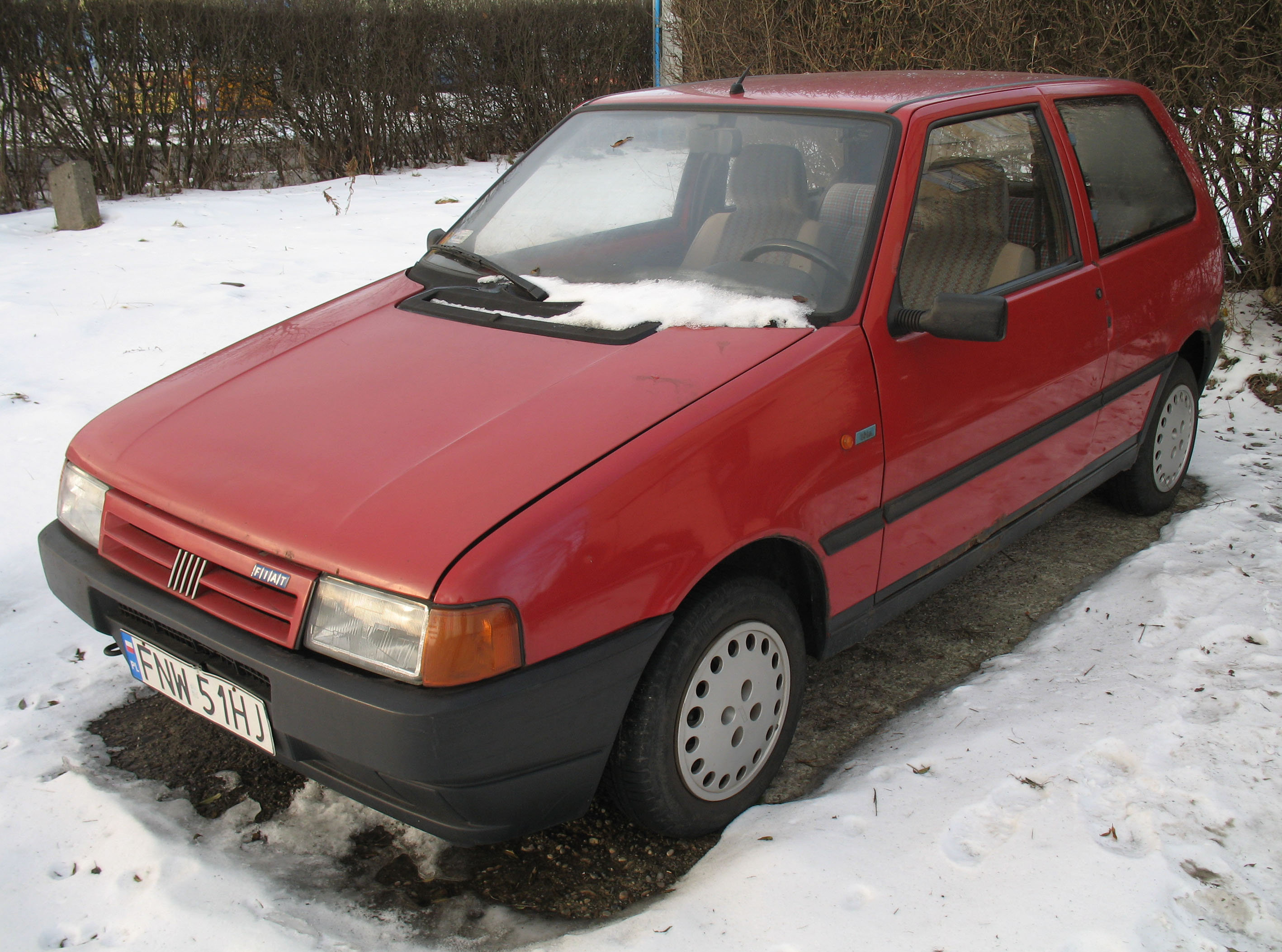 Red Fiat Uno 1.0 i.e. Mk2 3-door car in Kraków, Poland.